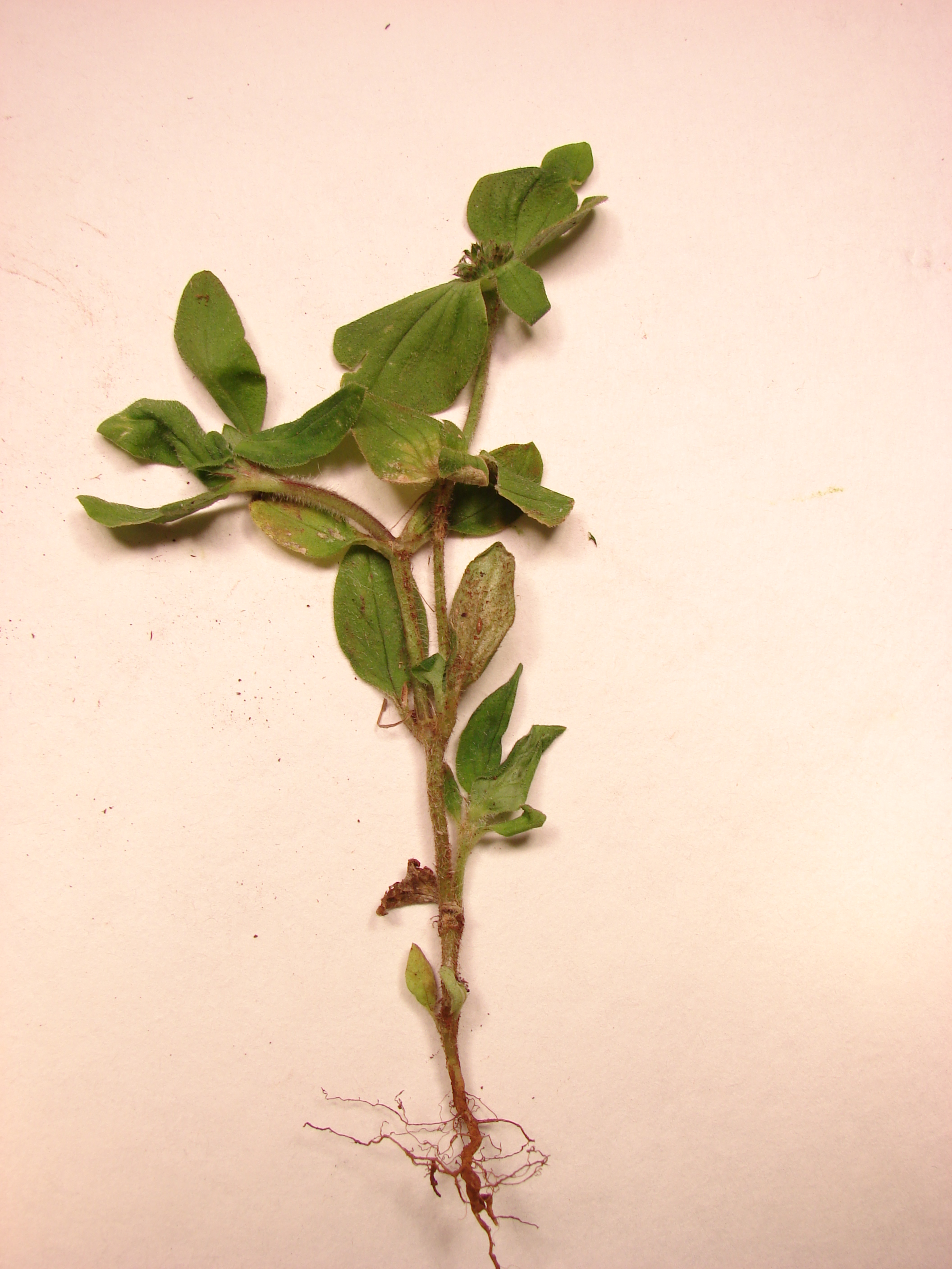 Richardia brasiliensis (plant specimen). Location: Maui, MISC LZ Piiholo